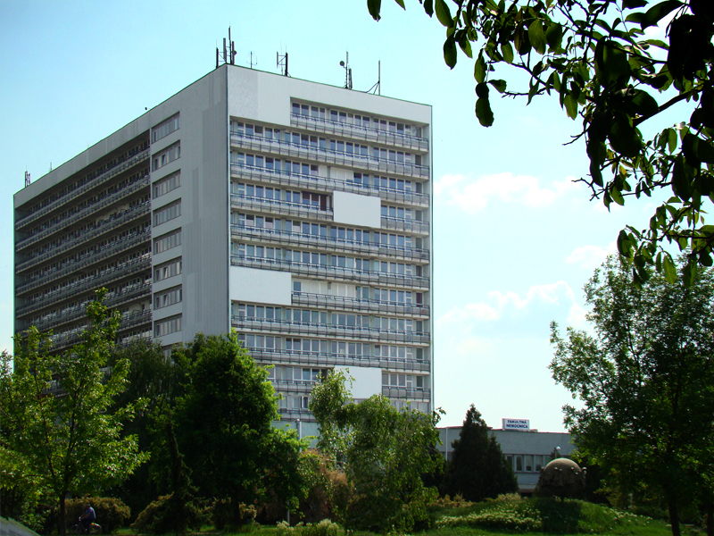 The new hospital in Nové Zámky